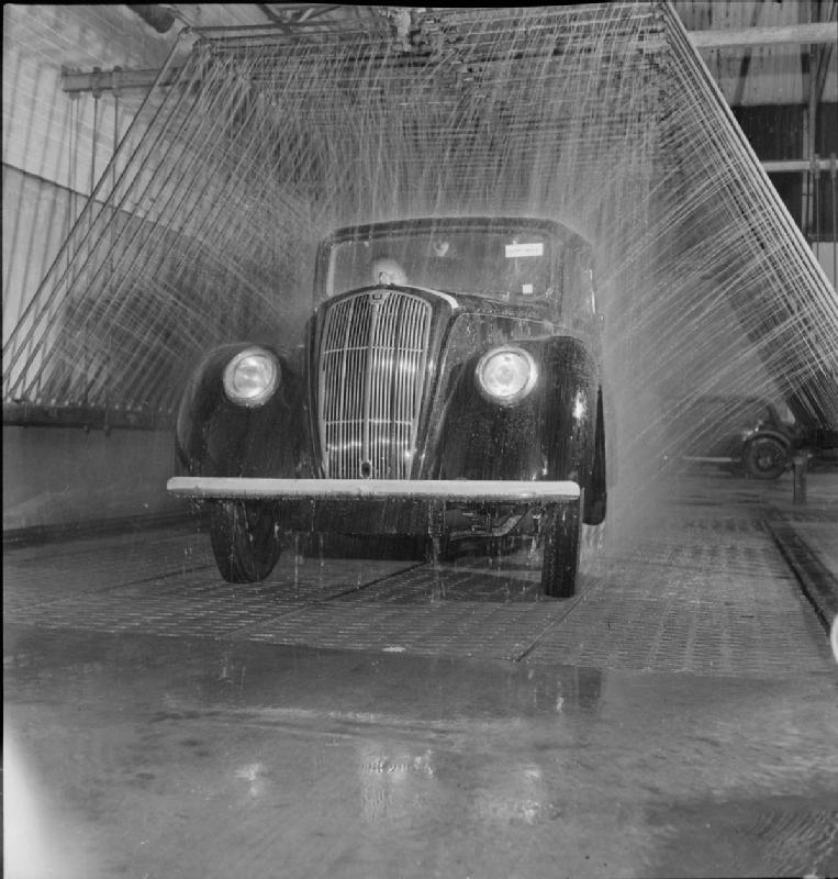 Britain Builds Light Cars- the British Automobile Industry, UK, 1945 A car is tested for waterproofing at a factory, somewhere in Britain. According to the original caption, "the artificial downpour exceeds the heaviest rain ever experienced in Great Britain and it is aimed at the car from every angle".